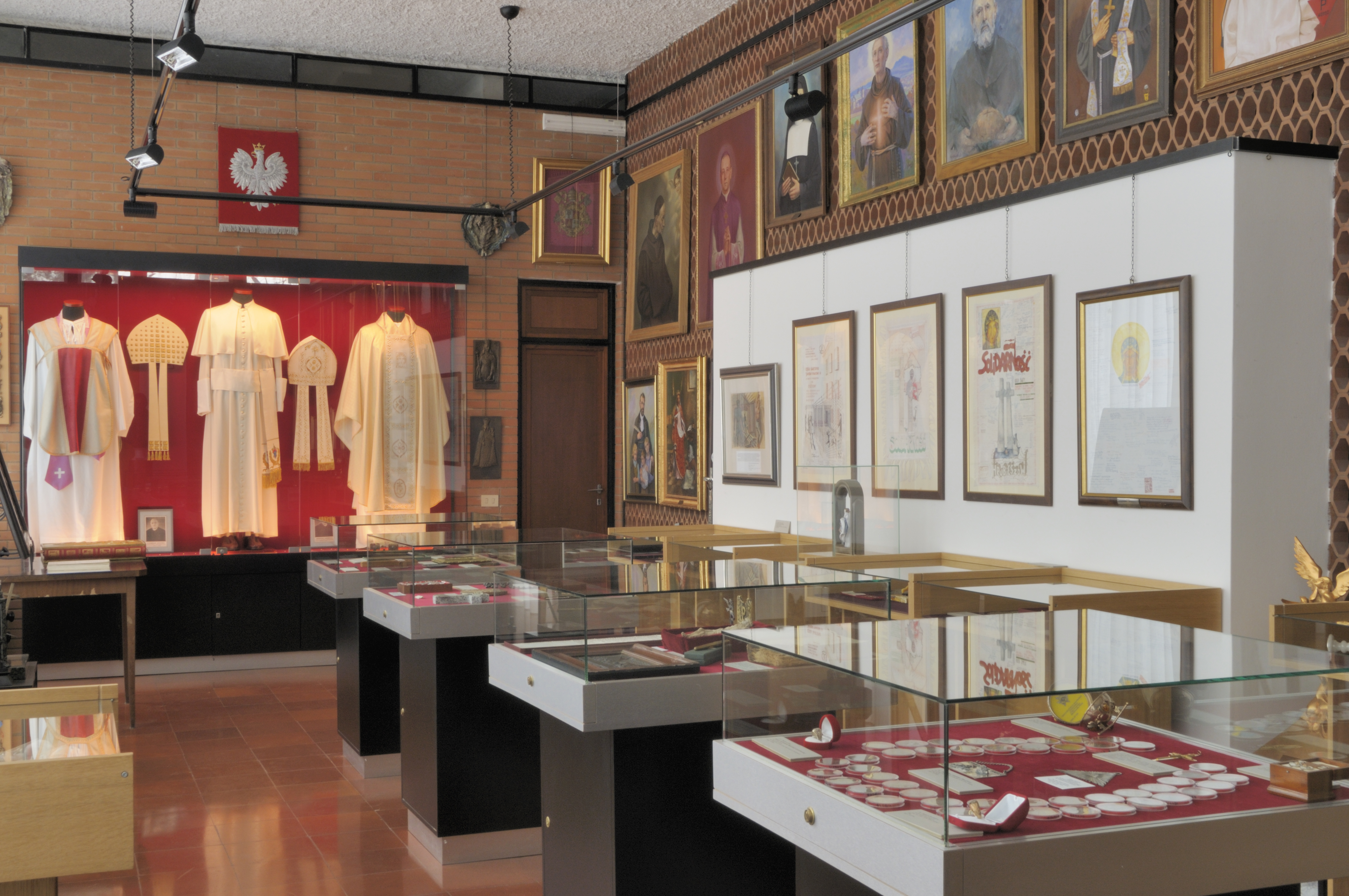 The John Paul II Pontificate’s Center for Documentation and Research in Rome